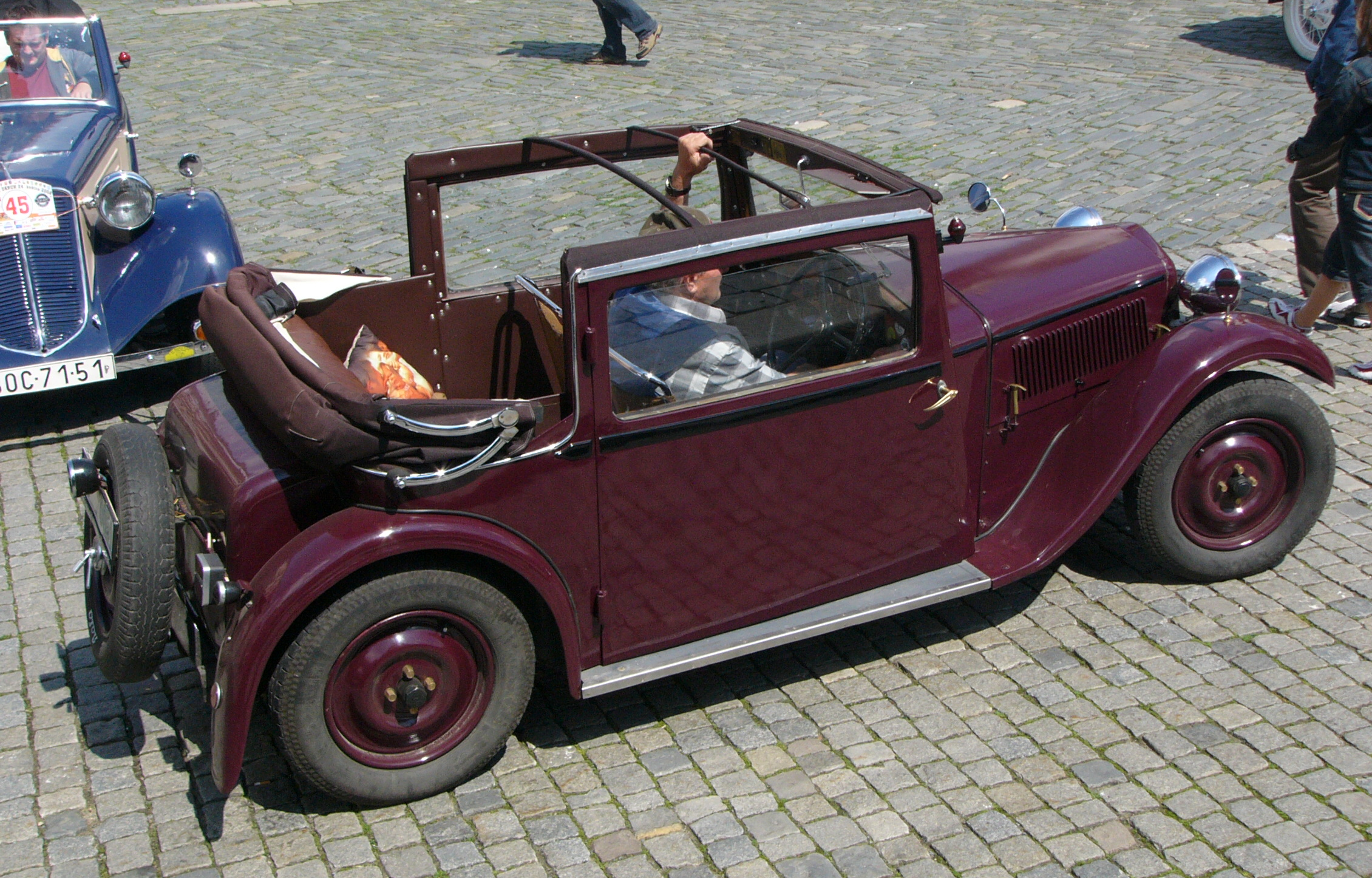 Zbrojovka Brno Z4 I. serie. This certain car was manufactured in 1933.